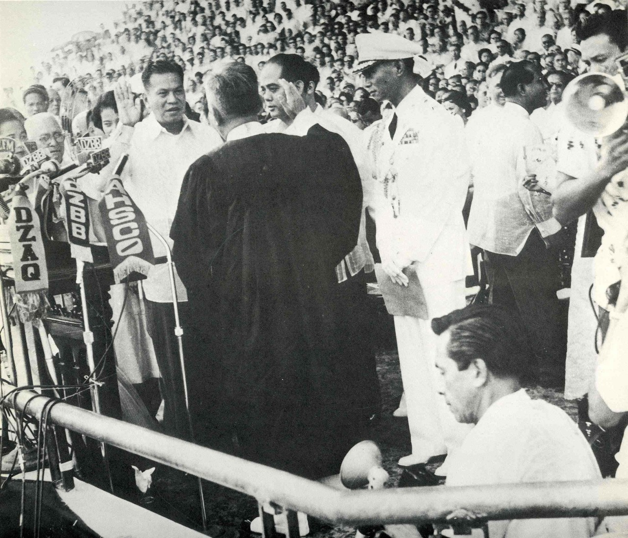 Ramon Magsaysay swears in as the 7th President of the Philippines on December 30, 1953